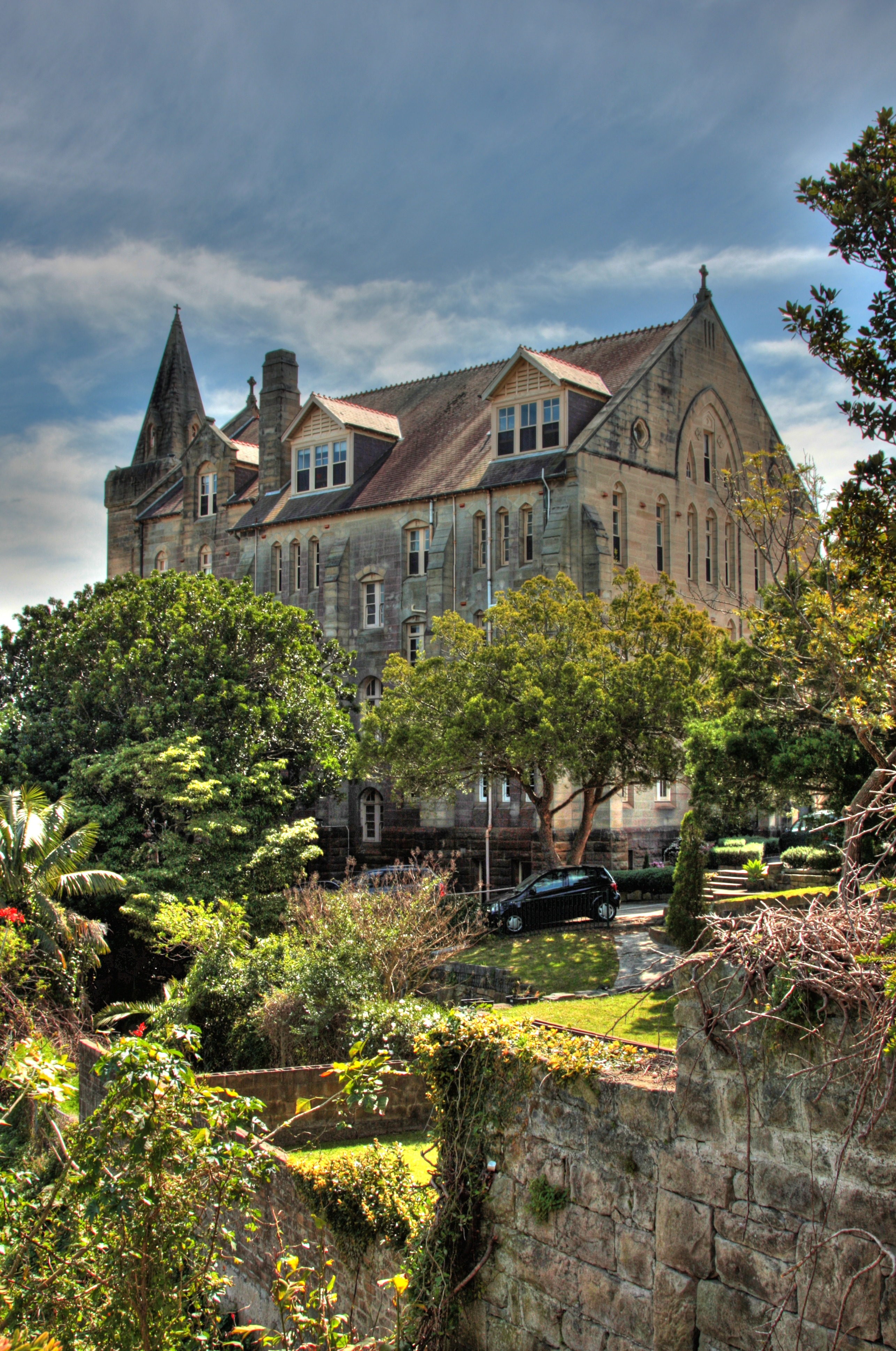 Lady of Sacred heart in the Sydney suburb of Rose Bay, New South Wales. Girls High and I think it may also be a boarding school